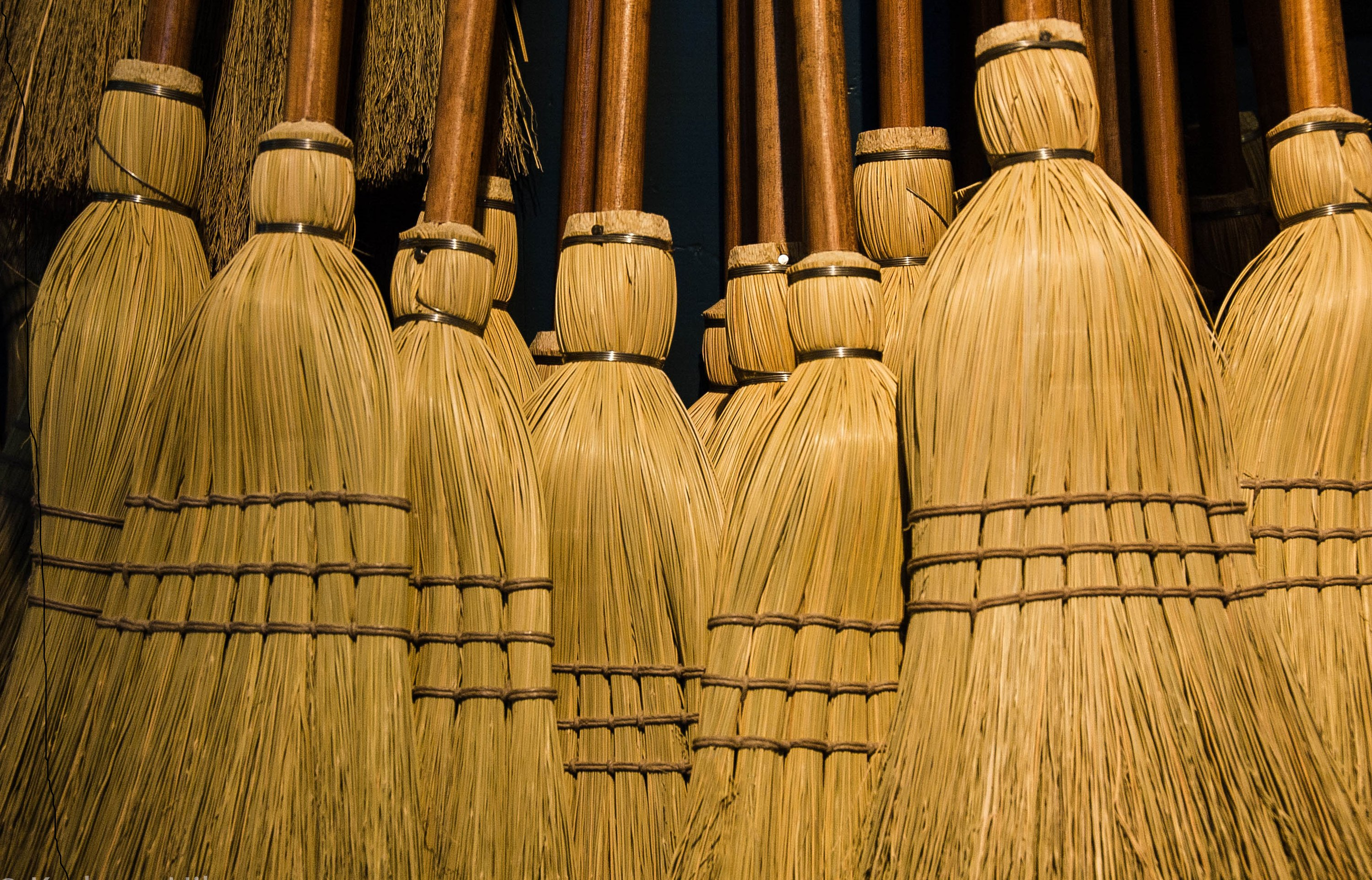 Shaker flat brooms sewed to hold form